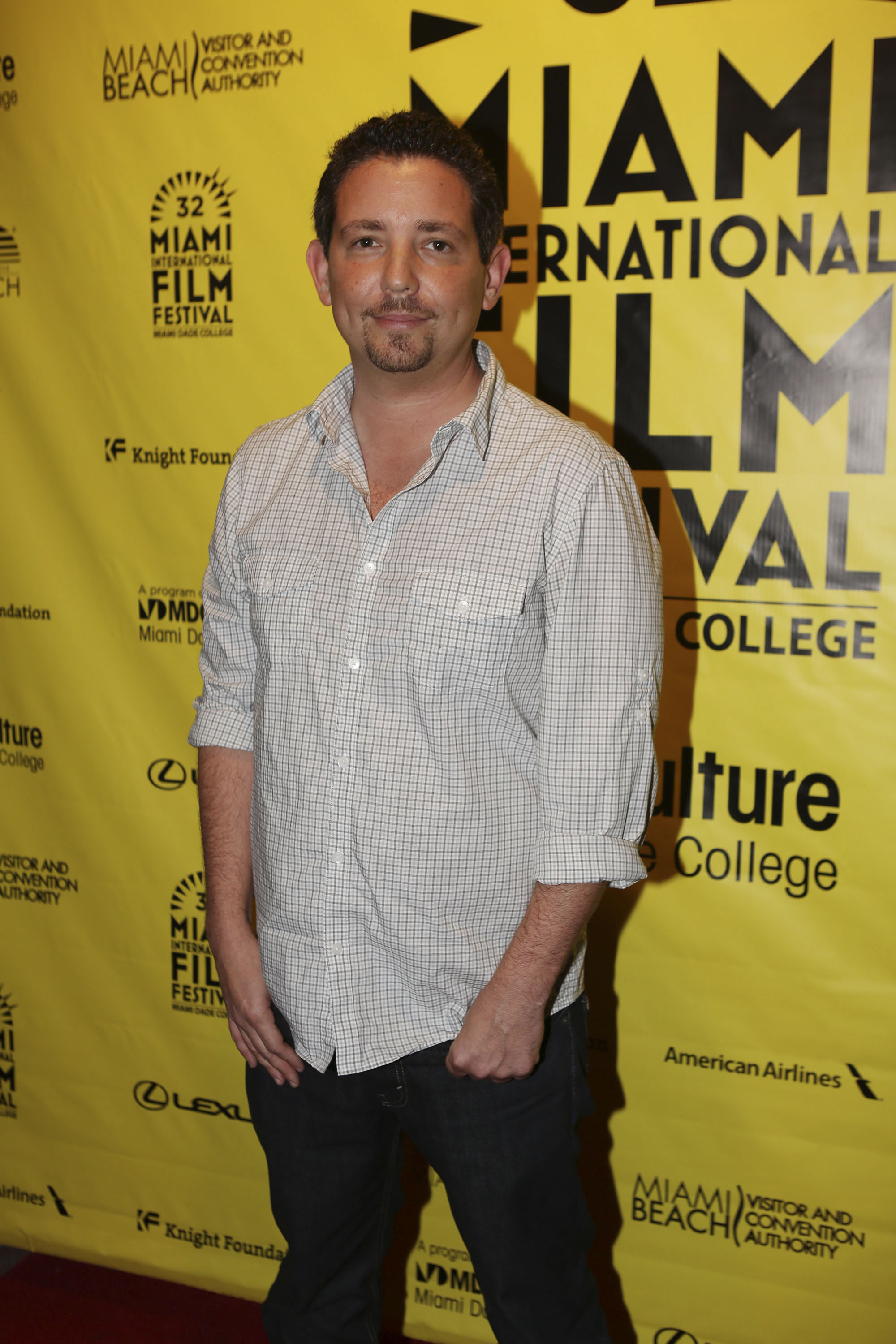 Producer Alfred Spellman at the 2015 Miami International Film Festival presentation of Dawg Fight at O Cinema presented at on March 12, 2015